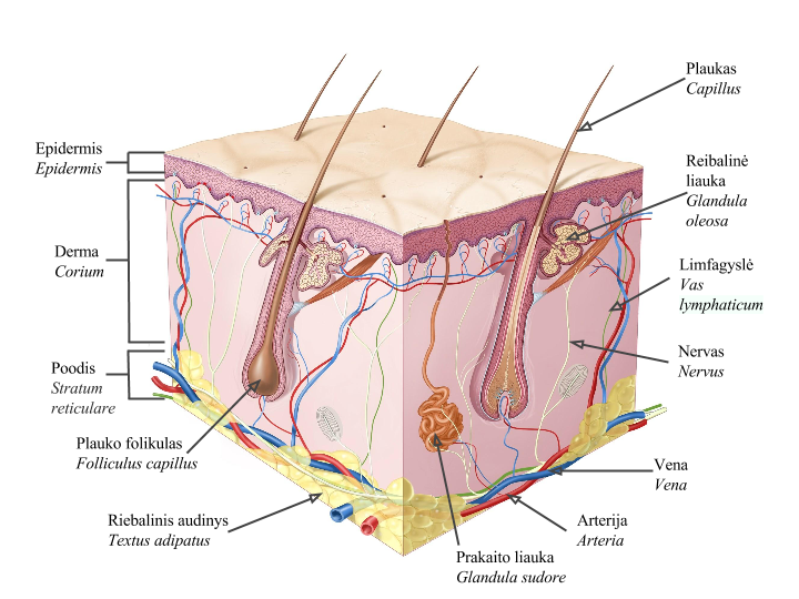 Skin, it`s layers and principal parts